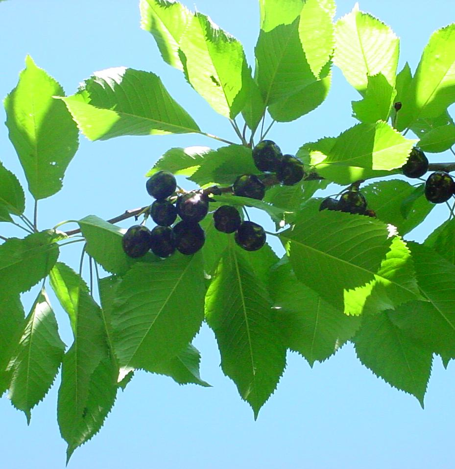 Bing cherry branch